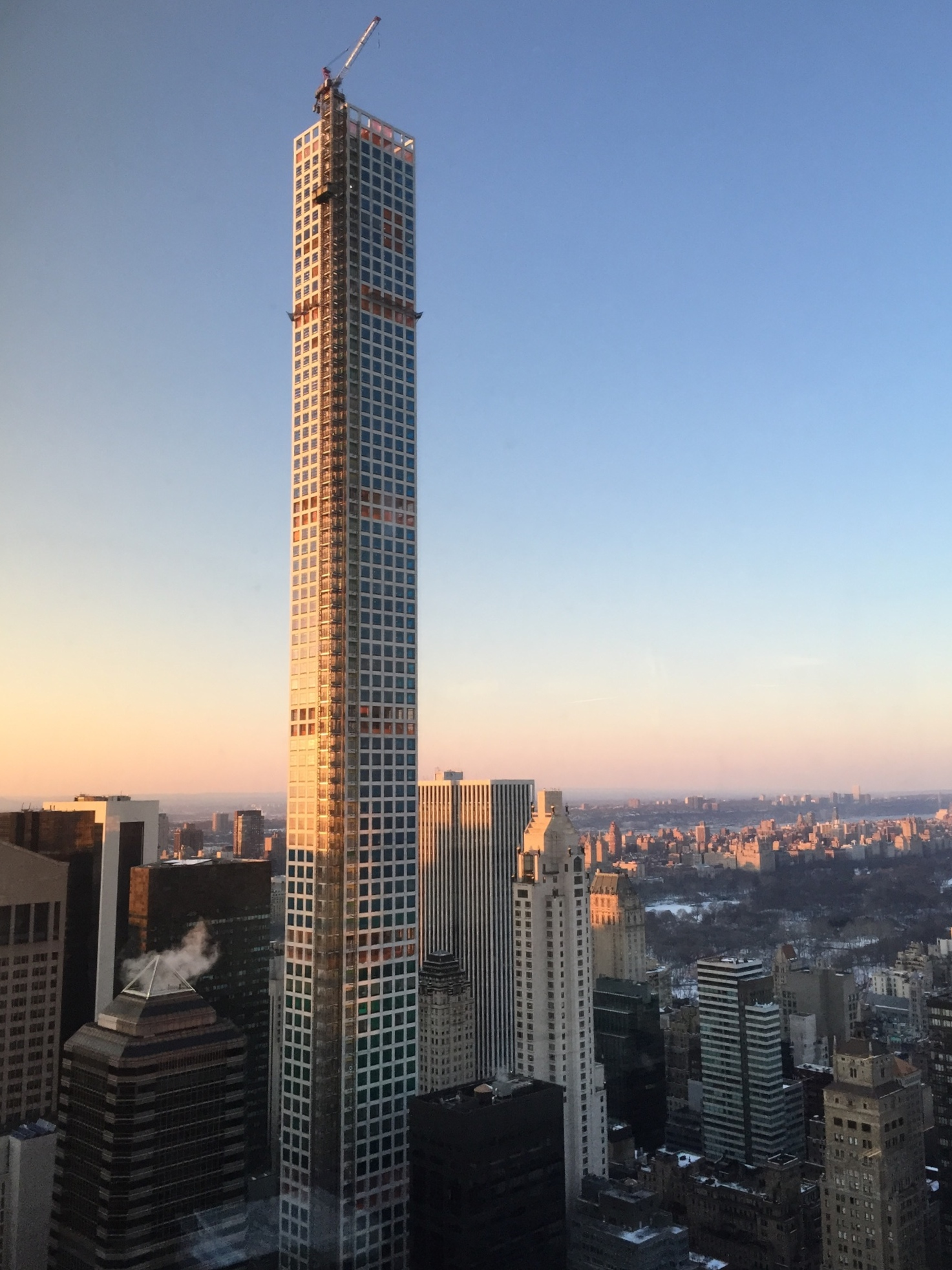 Sunset view of 432 Park Avenue, as seen from the 56th floor of the Citigroup Center.